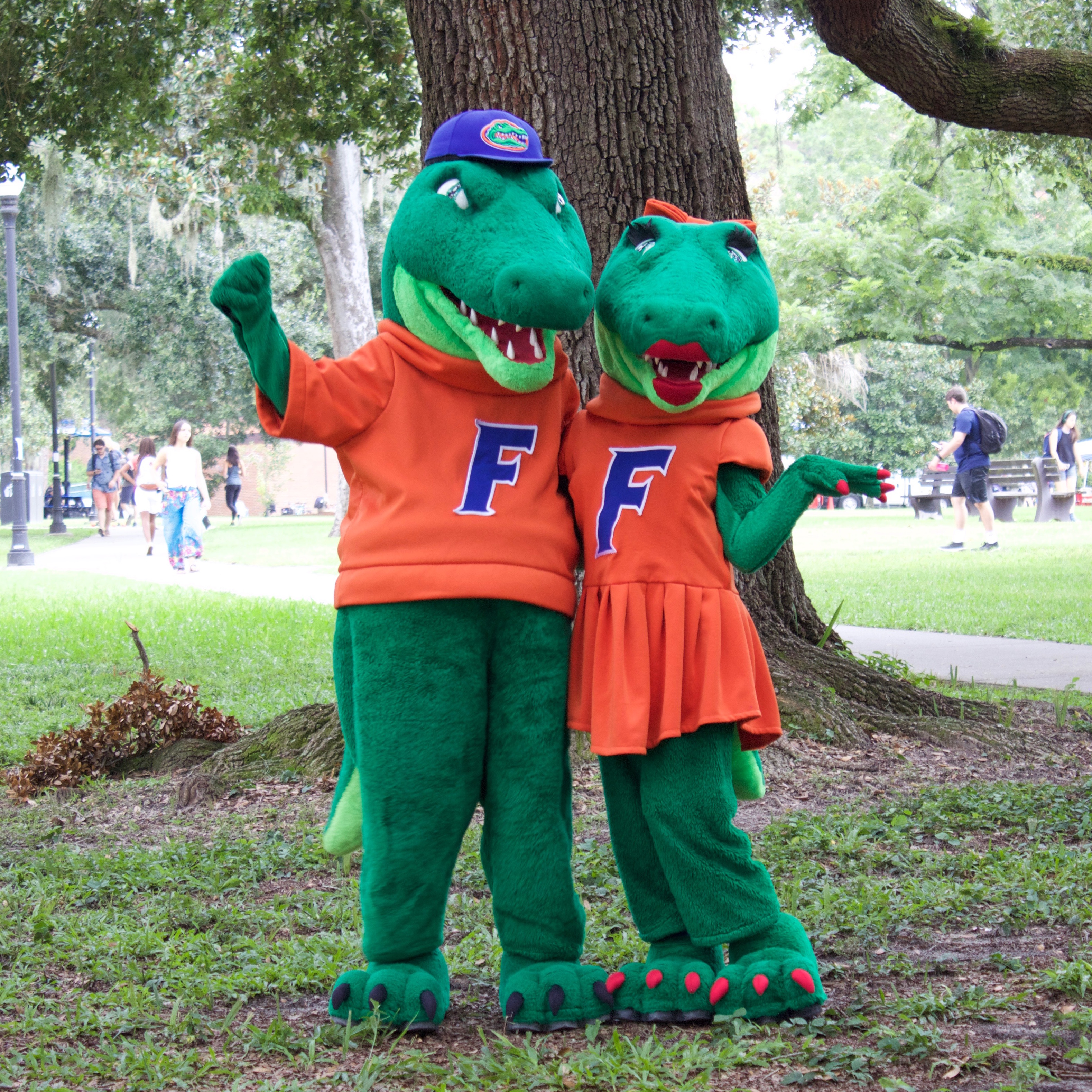 Picture of the beloved University of Florida mascots, Albert and Alberta, hanging out on campus.